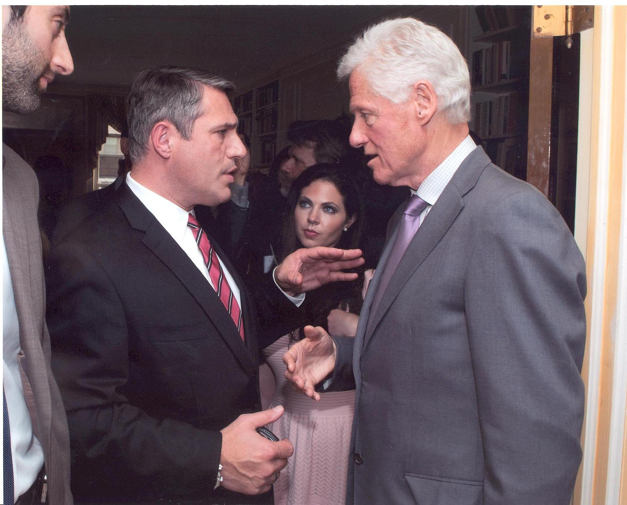 This is a picture of Michael Wildes talking to Bill Clinton at an immigration policy conference in June 2012.